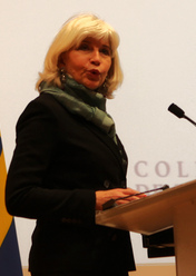 Laurence Tubiana, French Ambassador for climate, addressing the International Symposium on Climate and Energy at the Collège de France, Paris.